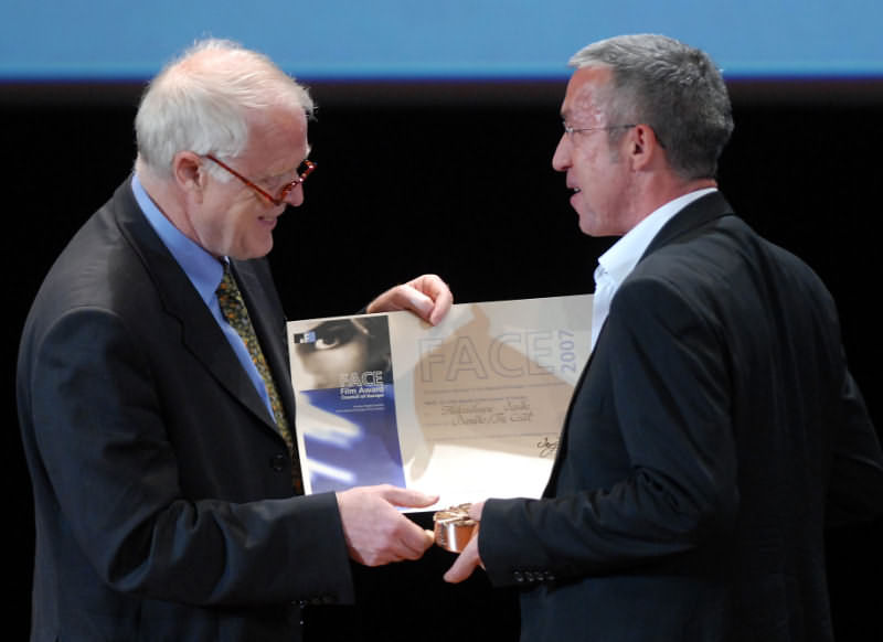 2007 Presentation of FACE Award by Thomas Hammarberg to Abderrahmane Sissako